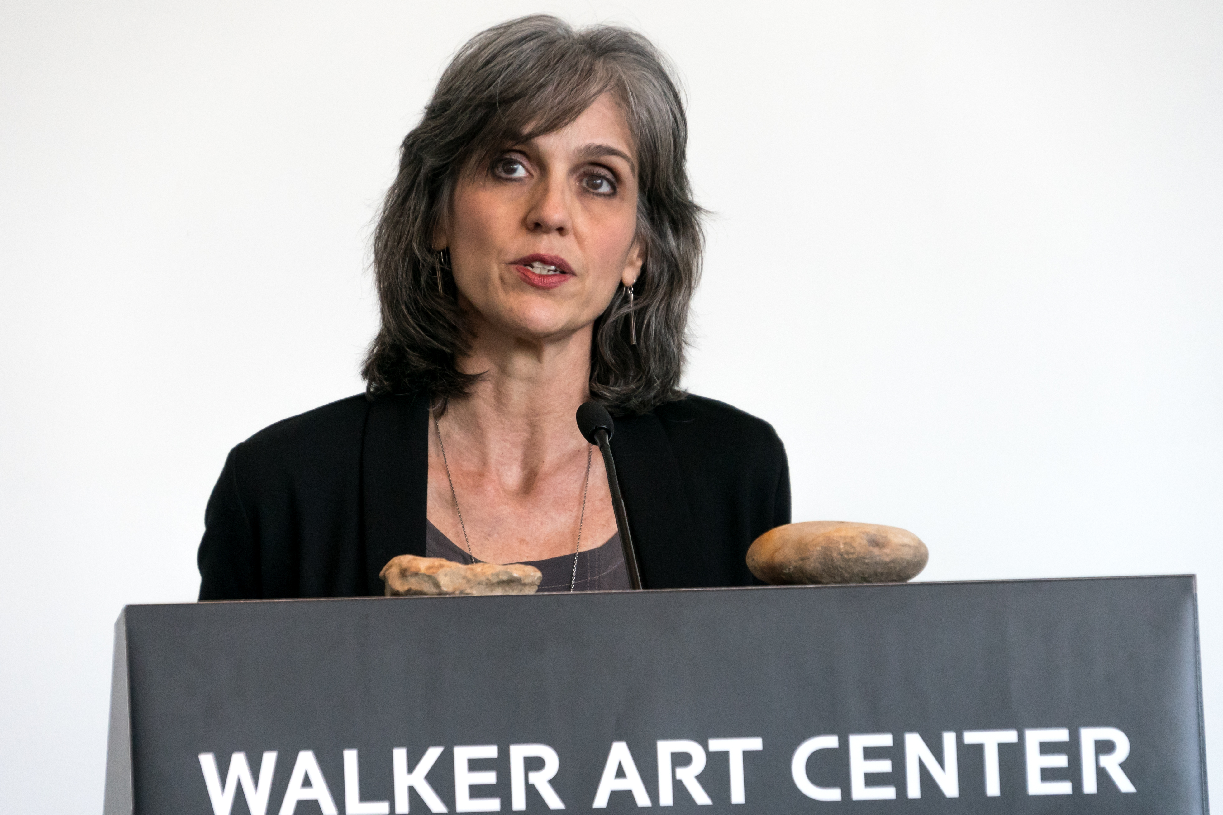 Sam Durant's "Scaffold" is a wood & steel sculpture that was to be placed in the Minneapolis Sculpture Garden. It is a composite of the representations of 7 historical gallows used in US state-sanctioned executions by hanging between 1859 and 2006. One of them being the gallows constructed in Mankato, Minnesota to simultaneously hang 38 Dakota men on December 26, 1862 on orders signed by President Lincoln following the U.S.-Dakota War. The Mankato execution is the largest one-day execution in American history.